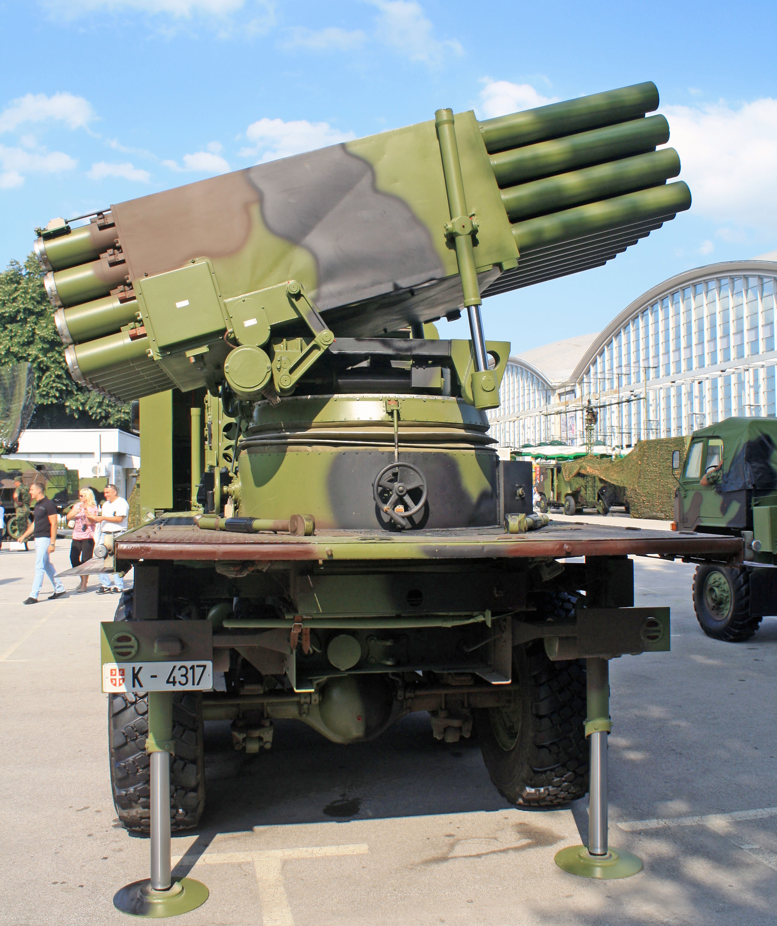 M77 Oganj 128mm multiple rocket launcher of Serbian Army on display at "Partner 2013" military fair.